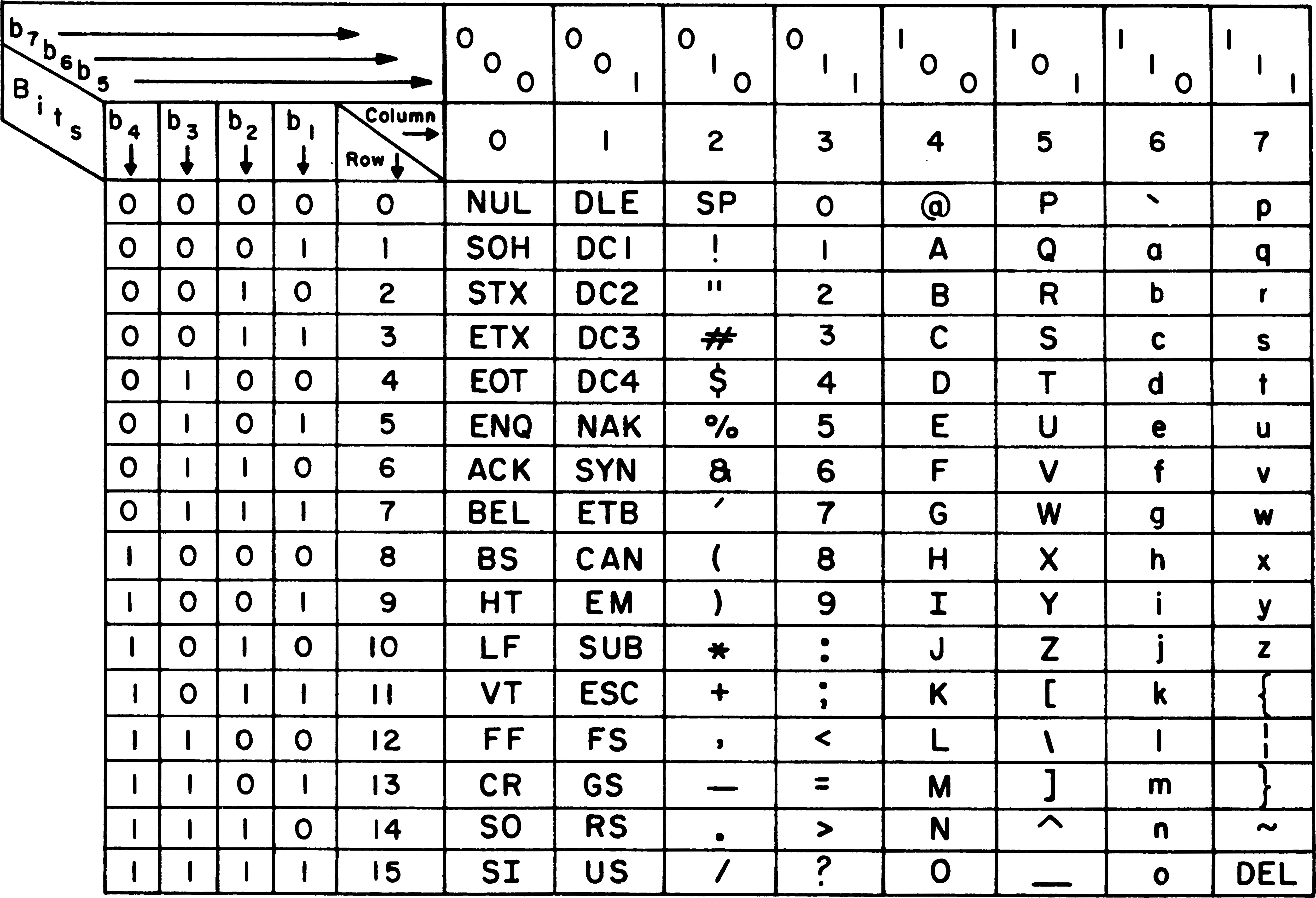 US-ASCII Code Chart. Scanner copied from the material delivered with TermiNet 300 impact type printer with Keyboard, February 1972, General Electric Data communication Product Dept., Waynesboro, Virginia.